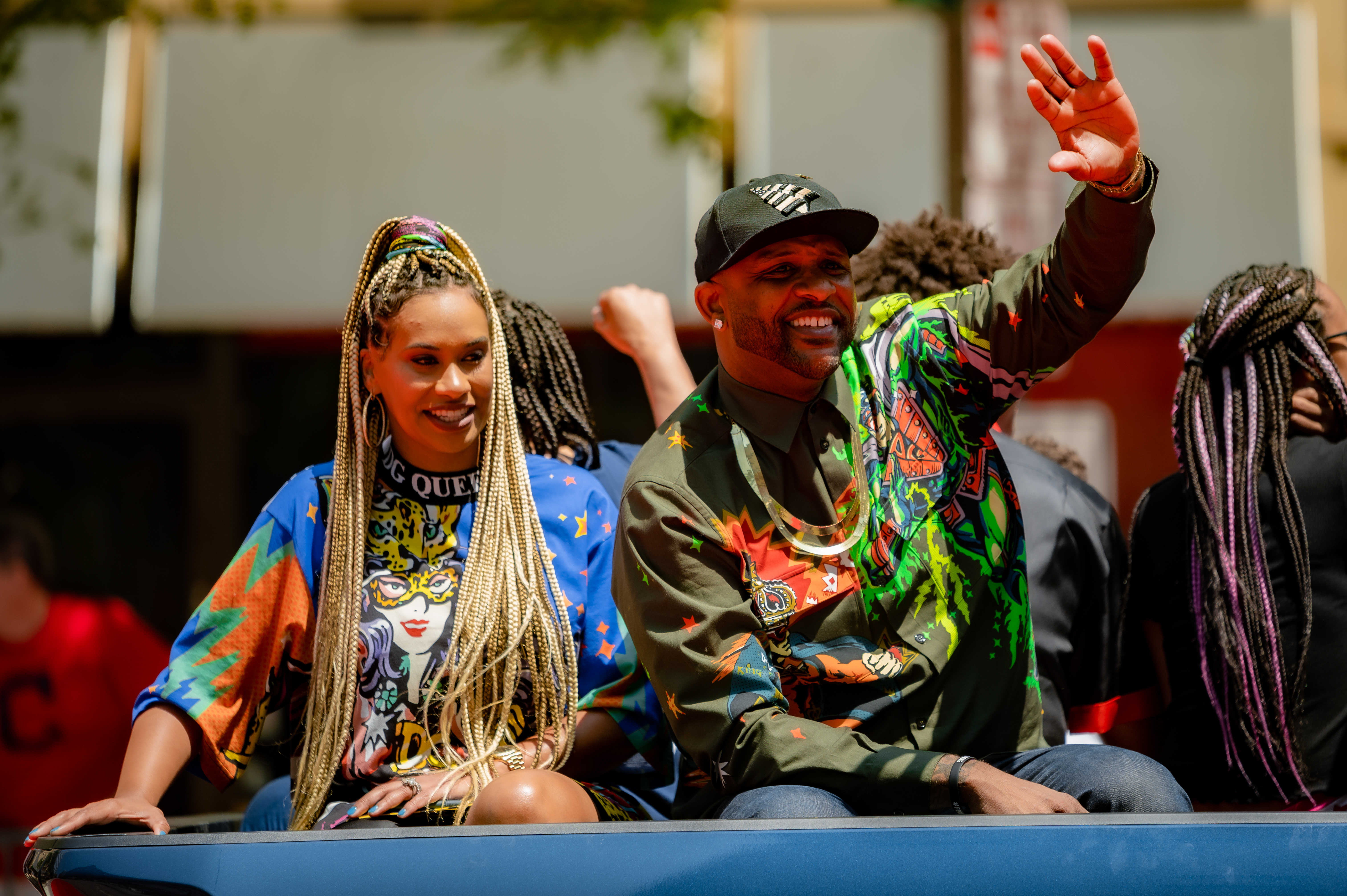 CC Sabathia and his wife at the 2019 MLB All-Star parade in Cleveland in 2019